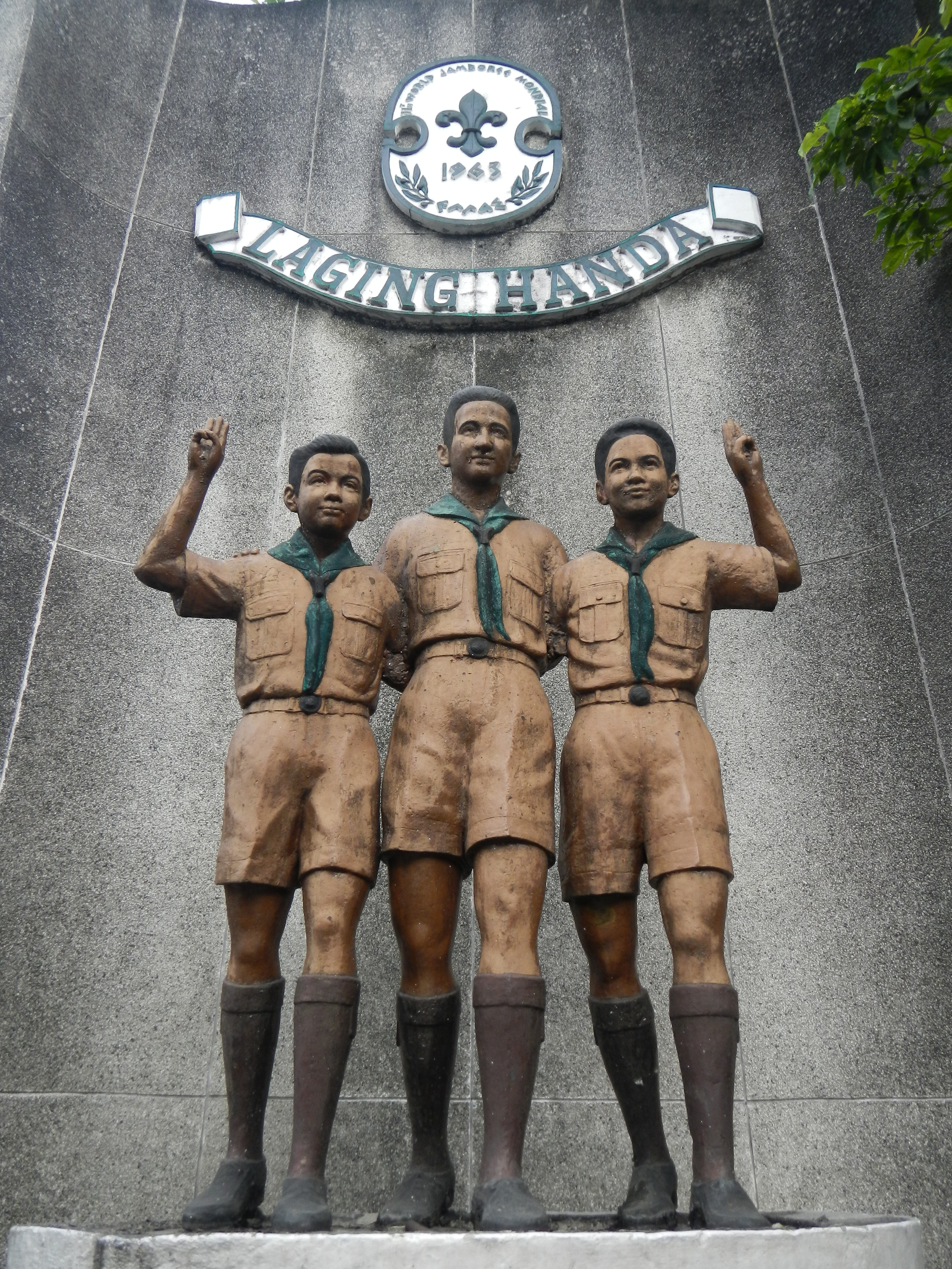 Upload Wizard photos of - the - a) Bureau of Immigration or Kawanihan ng Pandarayuhan building BI is an attached Office under the the DOJ Department of Justice (Philippines) [1] for policy and program coordination: Magallanes Drive, Intramuros - in front of the ruins of the b) Intendencia building or Aduana Customs building part of the List of Cultural Properties of the Philippines in Metro Manila [2], Welcome to Intrmuros sign, Cruceiro NHCP marker, or Wayside Stone Across, June 23, 2002, Manila 1002 Puerta de Isabel, c) Colegio de San Juan de Letran, [3] and its Dormitory, d) Boy Scouts Monument of Letran students - Air Scout Observer Ramon Valdes Albano Manila Council, Senior Scout Pathfinder Henry Cabrera Chuatoco Manila Council and Star Scout Wilfredo Mendoza Santiago Manila Council - and Senior Scout Pathfinder Paulo Cabrera Madriñan Pasay Council, Paete, Laguna who perished with 22 other Delegates of the 11th World Scout Jamboree [4] in Greece July 28, 1963 in United Arab Airlines Flight 869 (1963) [5] Boy Scouts of the Philippines [6] 1:50 a.m., nine nautical miles from Madh Island Mumbai on 28 July 1963 (20:16 GMT on 27 July).